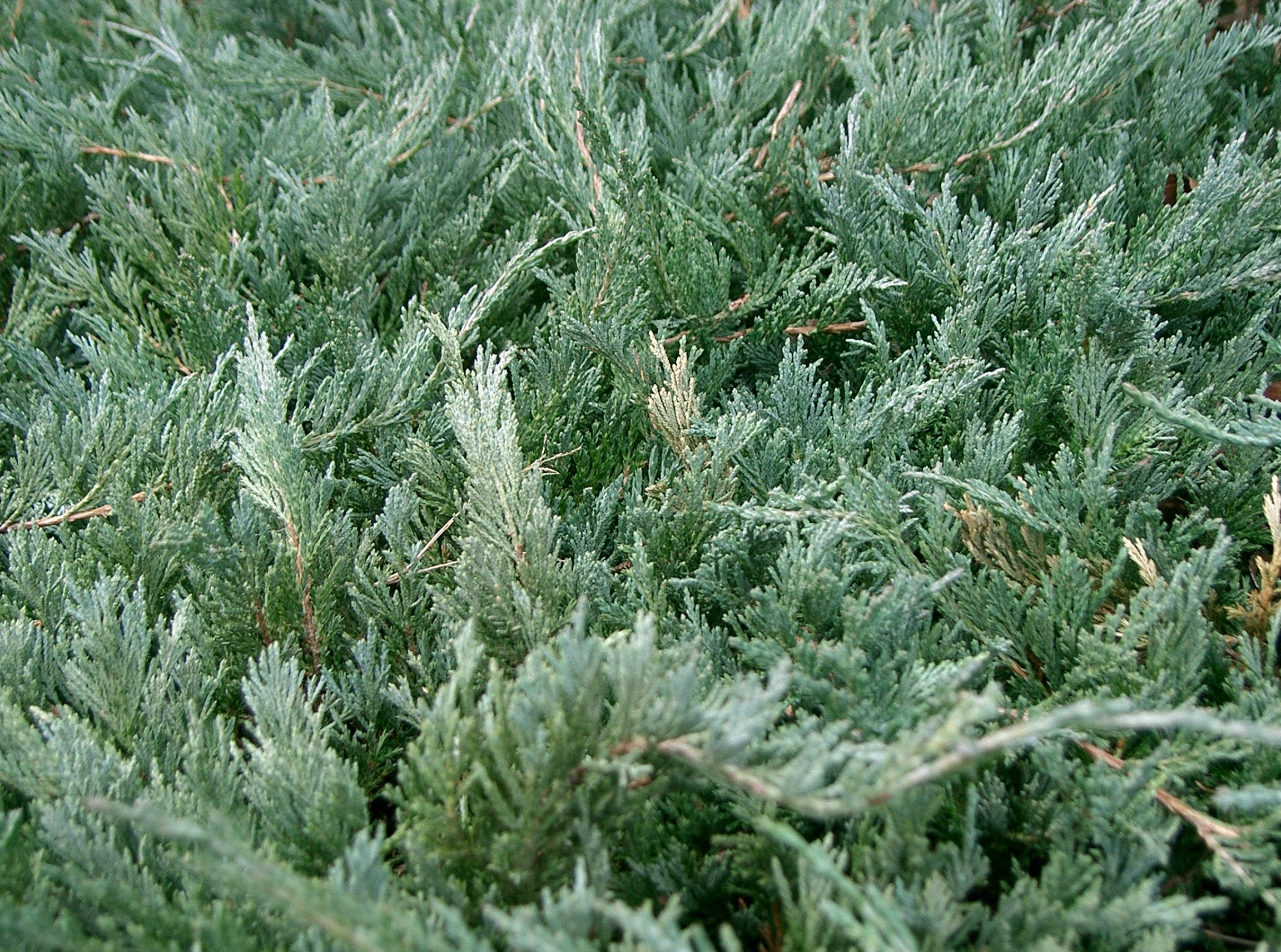 Juniperus chinensis var. procumbens